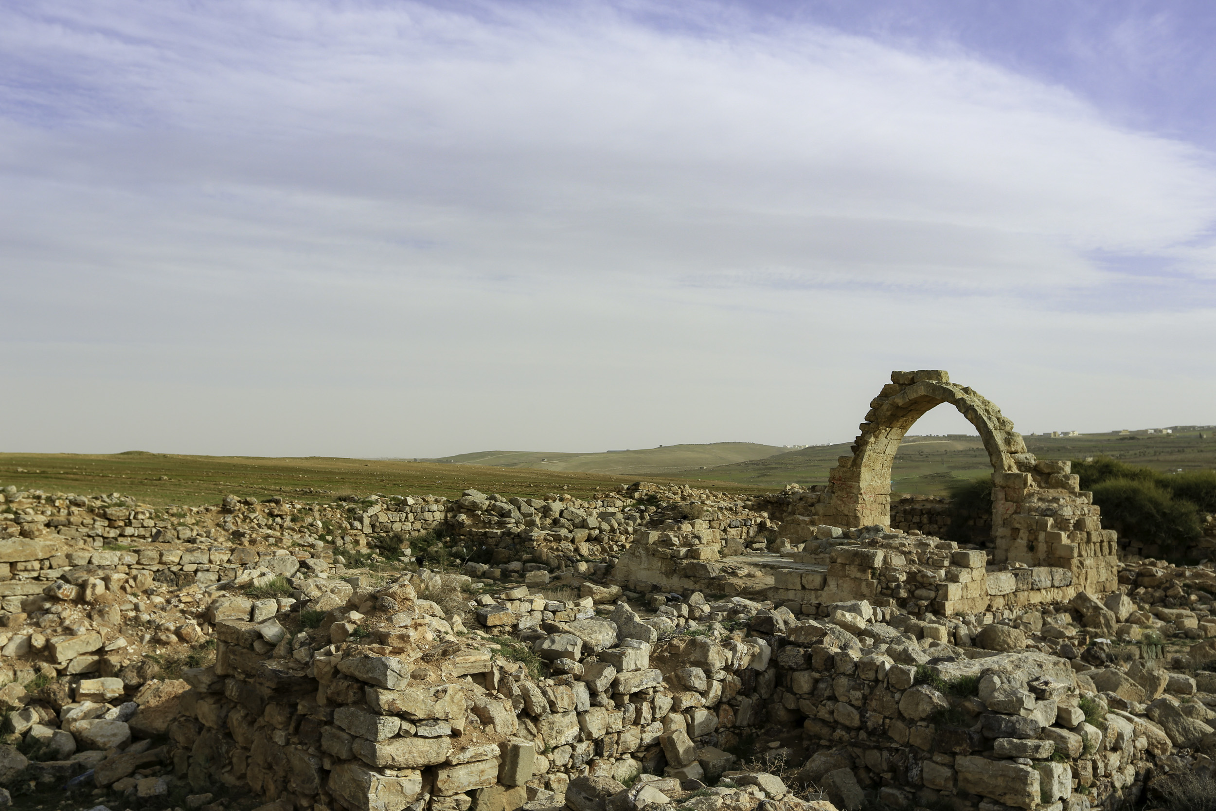 Battle of Mu'tah